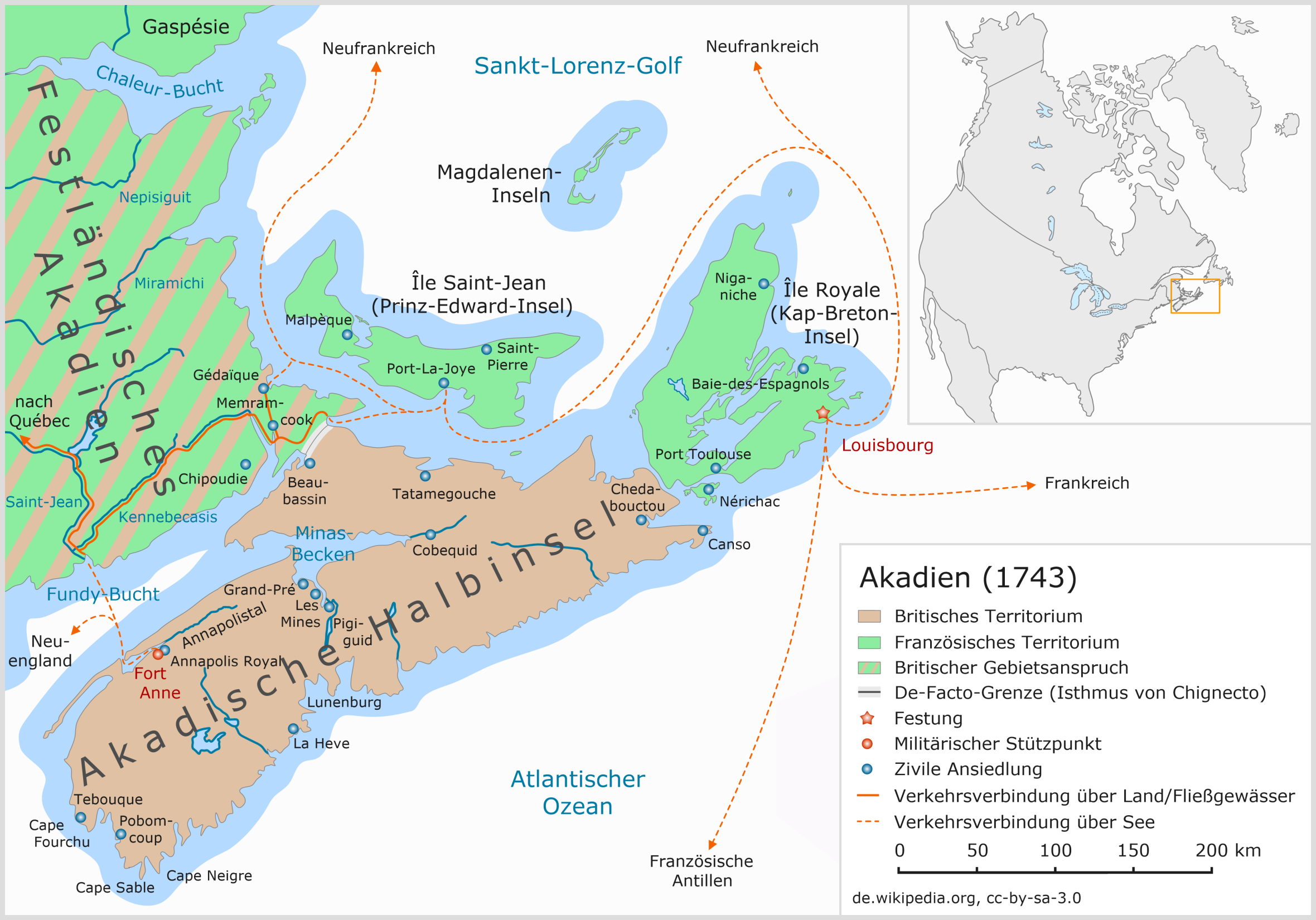 Acadia (1743)